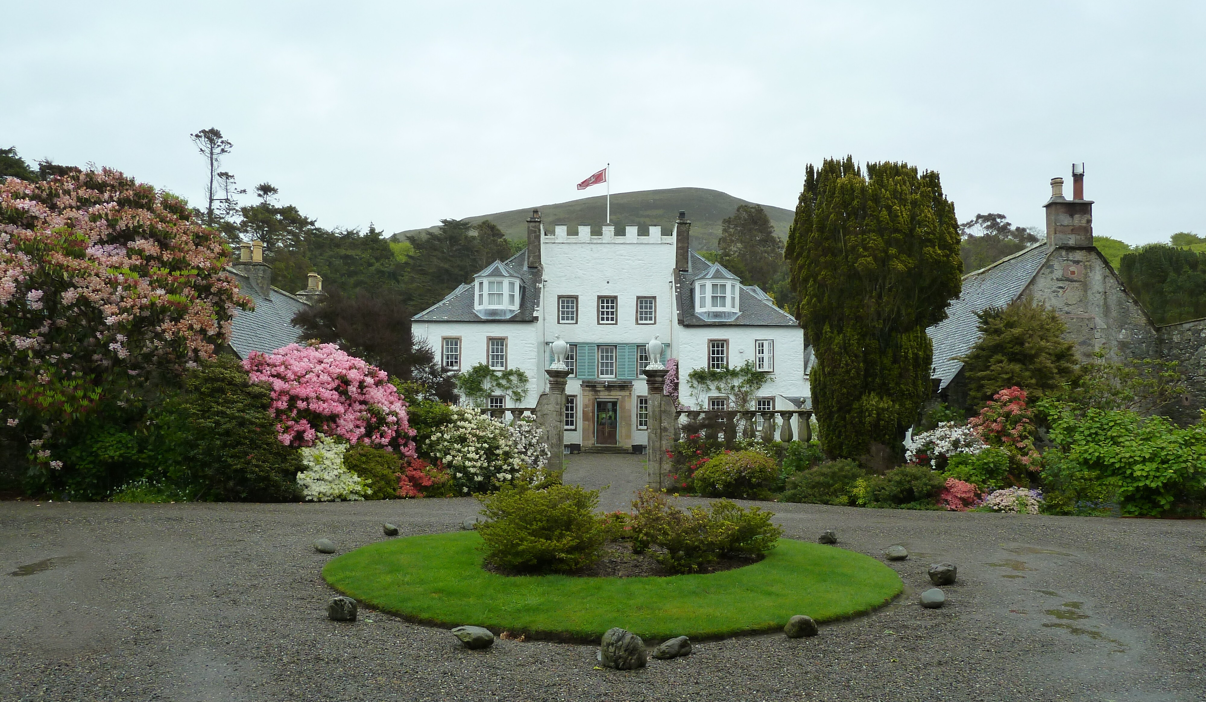 Lochryan House